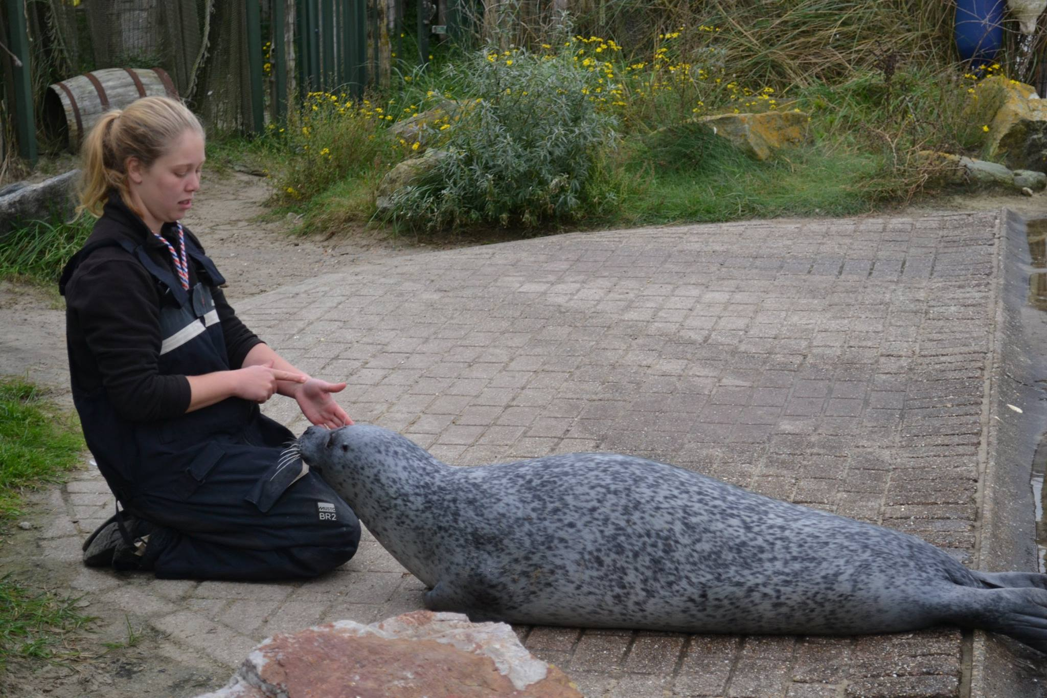 Zeehond Show Neeltje jans